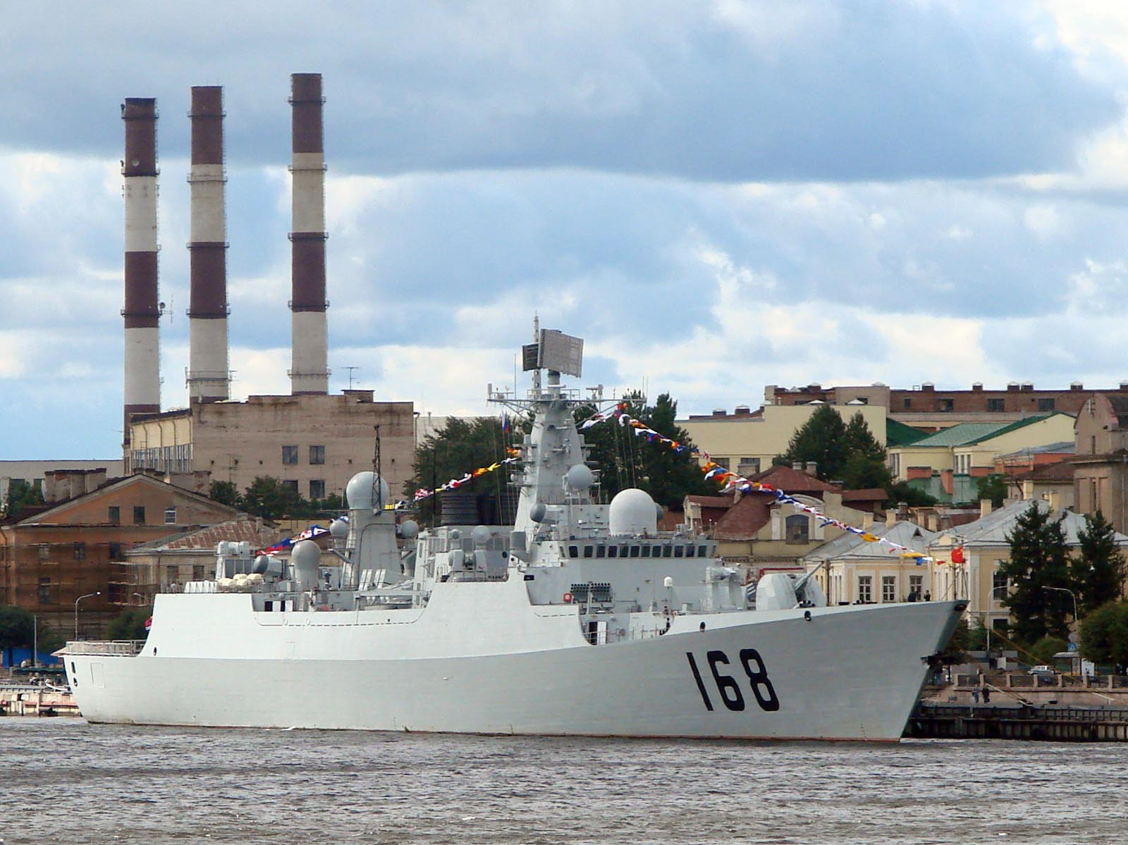 People's Liberation Army Navy Type 052B Guangzhou Destroyer in Saint Petersburg, Russia